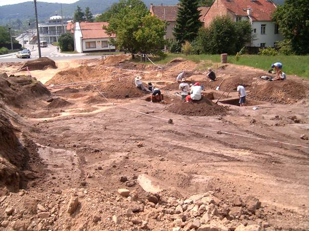 Komin archelogic site, Hlavní crossing, Brno, Czech, (archelogic site were destroyed by bulding garage )